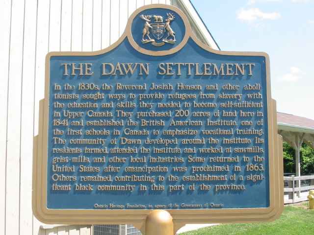 photographed by Alan Brown, and used here with permission.